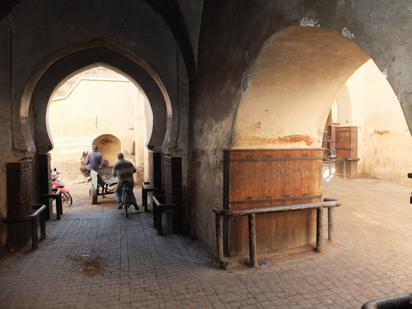 Bab Debbagh, the eastern gate of the Marrakesh medina. An elaborate bent entrance, the passage of the gate turns 90 degrees once and 180 degrees twice.